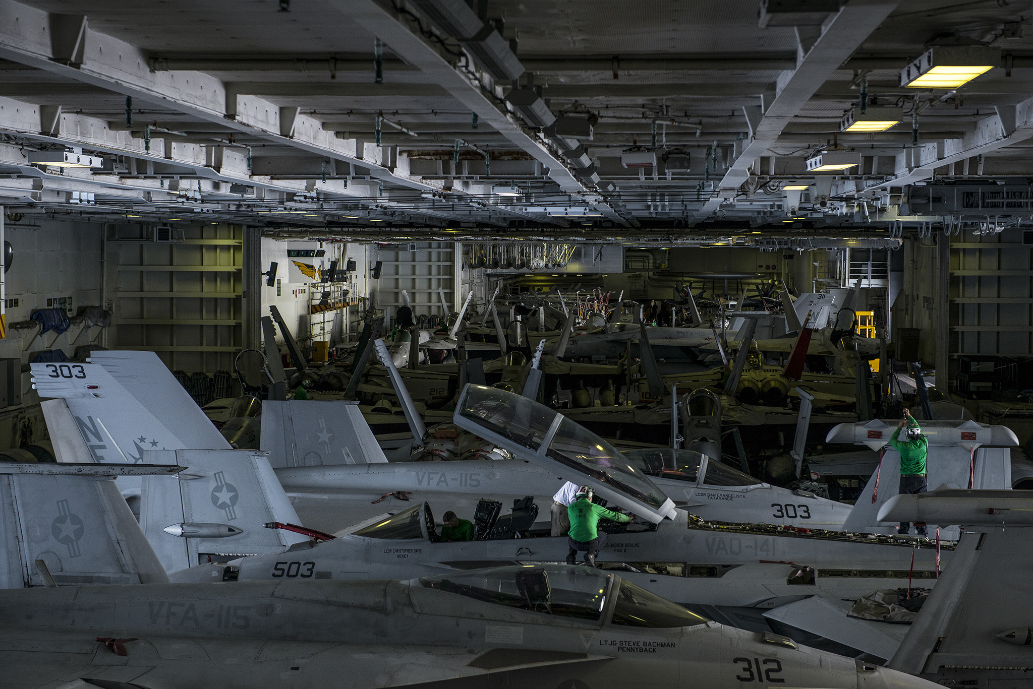 Sailors perform maintenance on aircraft of Carrier Air Wing 5 (CVW-5) in the hangar bay aboard the U.S. Navy aircraft carrier USS Ronald Reagan (CVN-76). CVW-5 was re-assigned to the Ronald Reagan in August 2015, as the carrier replaced USS George Washington (CVN-73) as the U.S. Navy's forward deployed carrier in Japan.